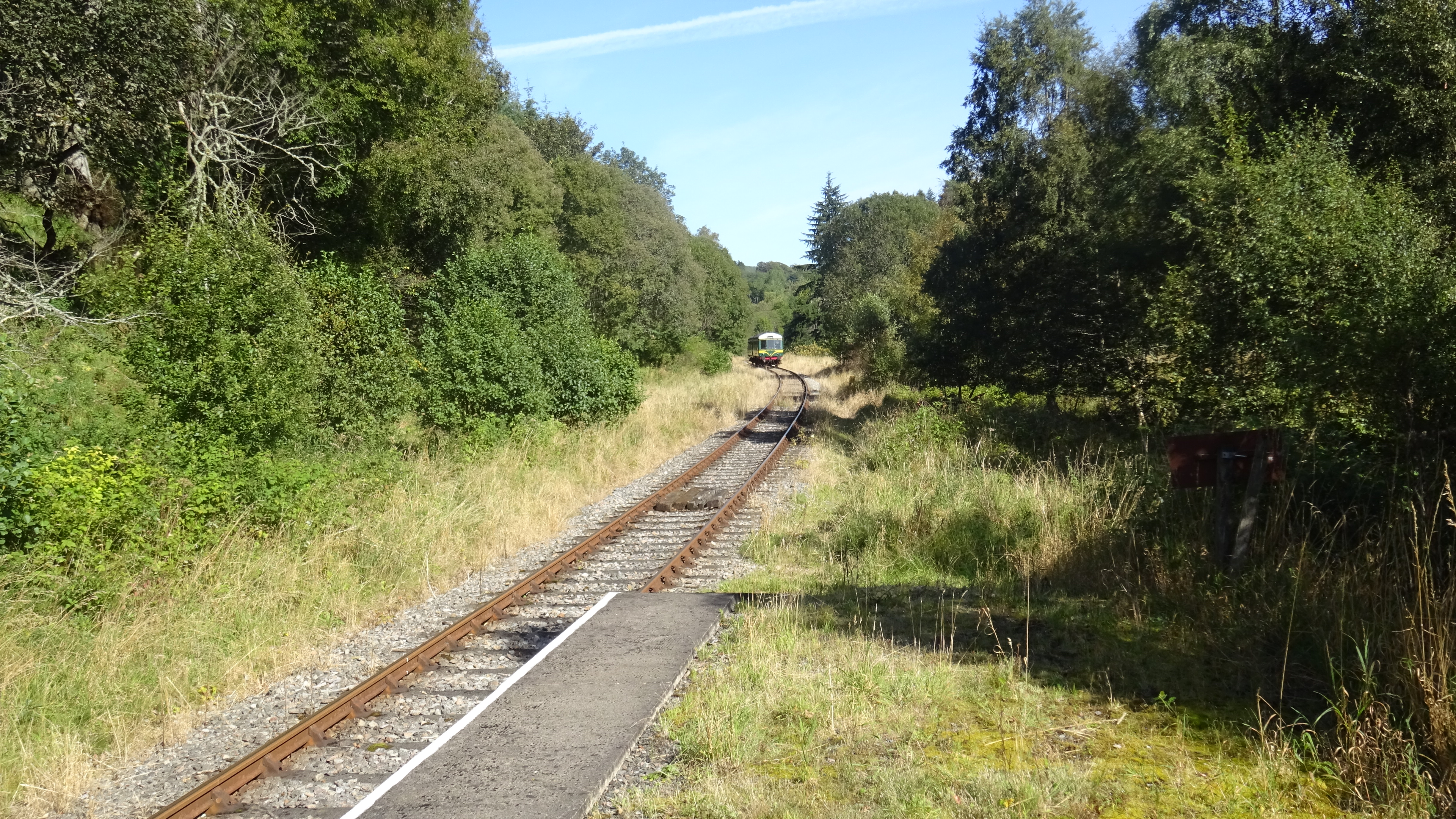 Drummuir railway station, Keith and Dufftown Railway. View towards Towiemore with a train for Dufftown. Station closed in 1968 but re-opened in 2003.